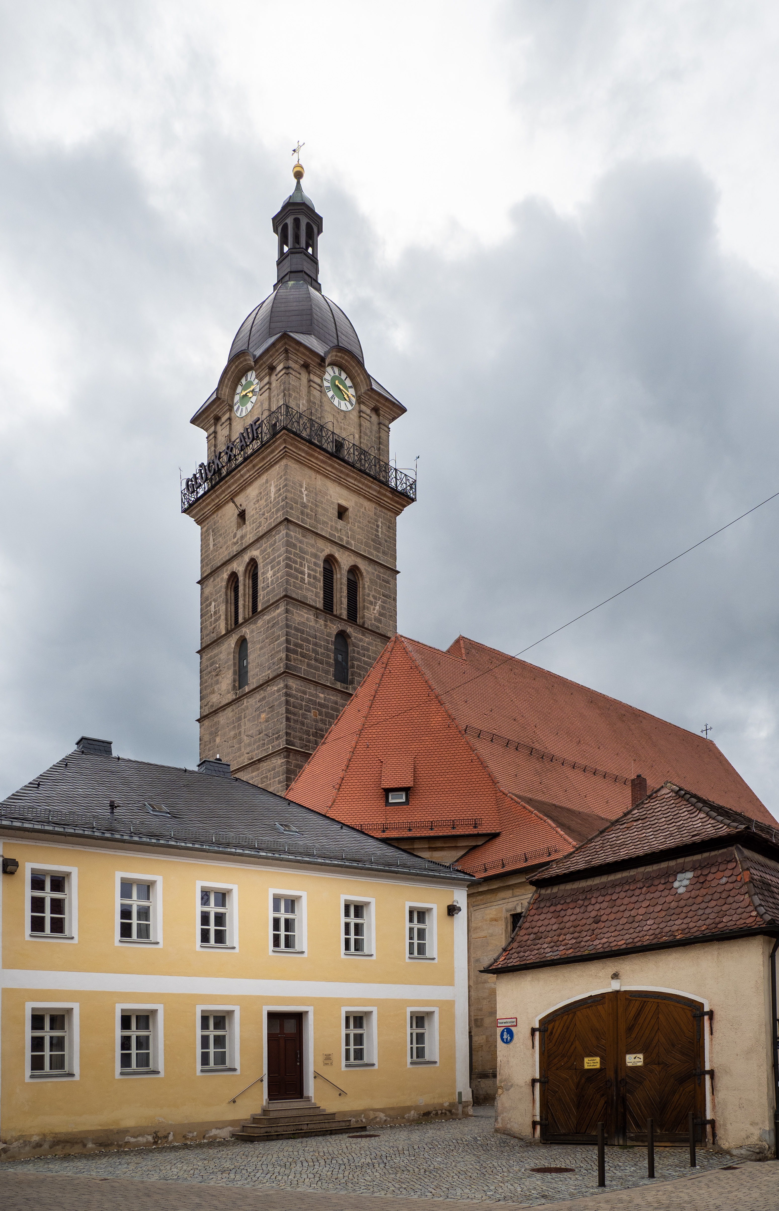 Church St. Johannes the Baptist in Auerbach in the Upper Palatinate